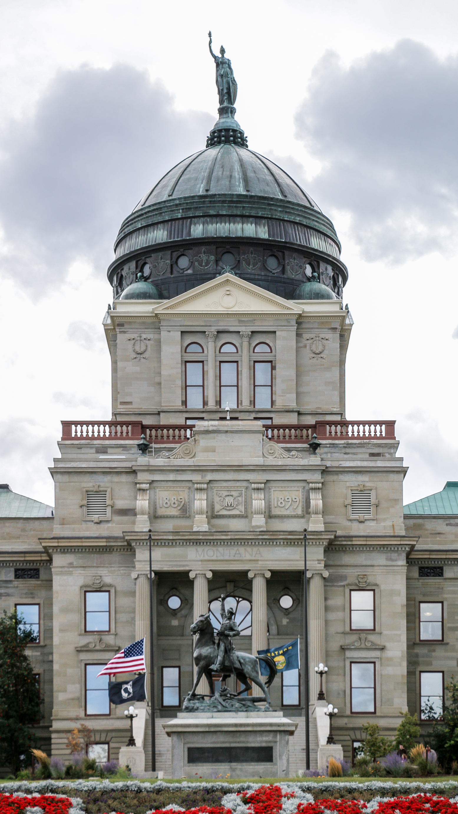 The Montana State Capitol in Helena